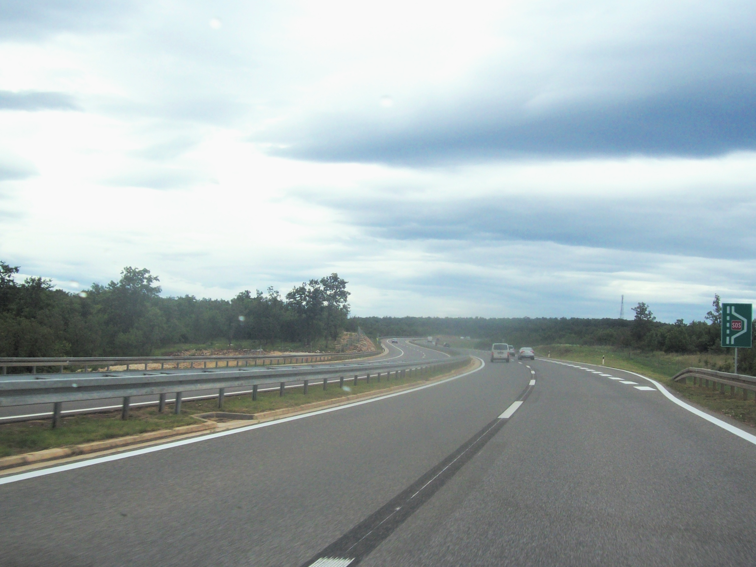 Four-lane motorway A9 on Istrian Y